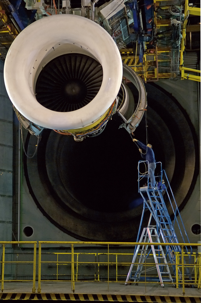 A General Electric CF6 turbofan engine installed on a testbed, Torrejón de Ardoz